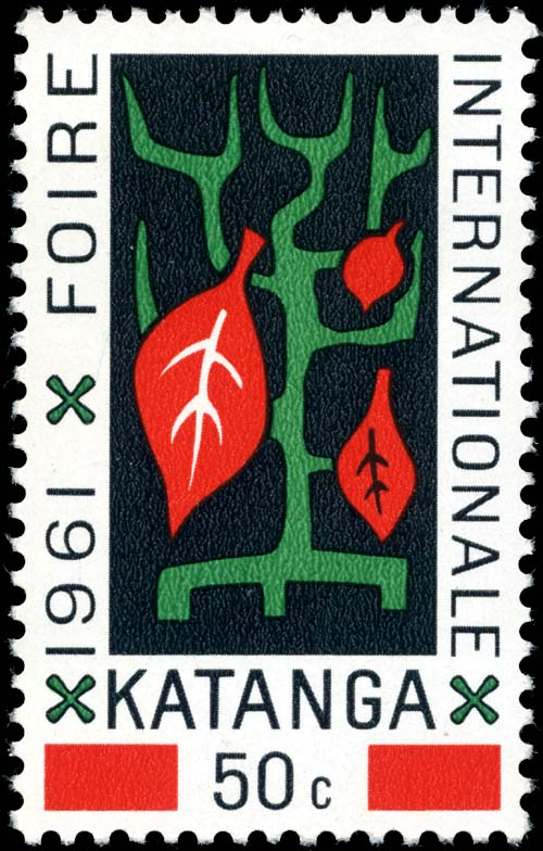 Katanga 50c stamp of 1961, international fair issue